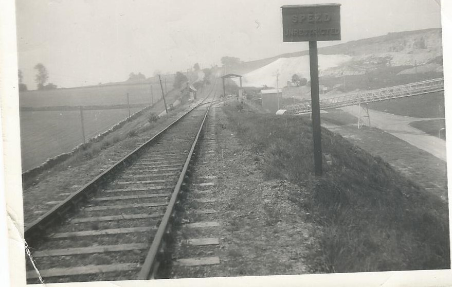 Sign giving drivers authority to charge the 1 in 14 bank